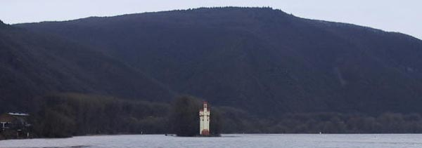 Mike Chapman - public domain Mike Chapman - public domain